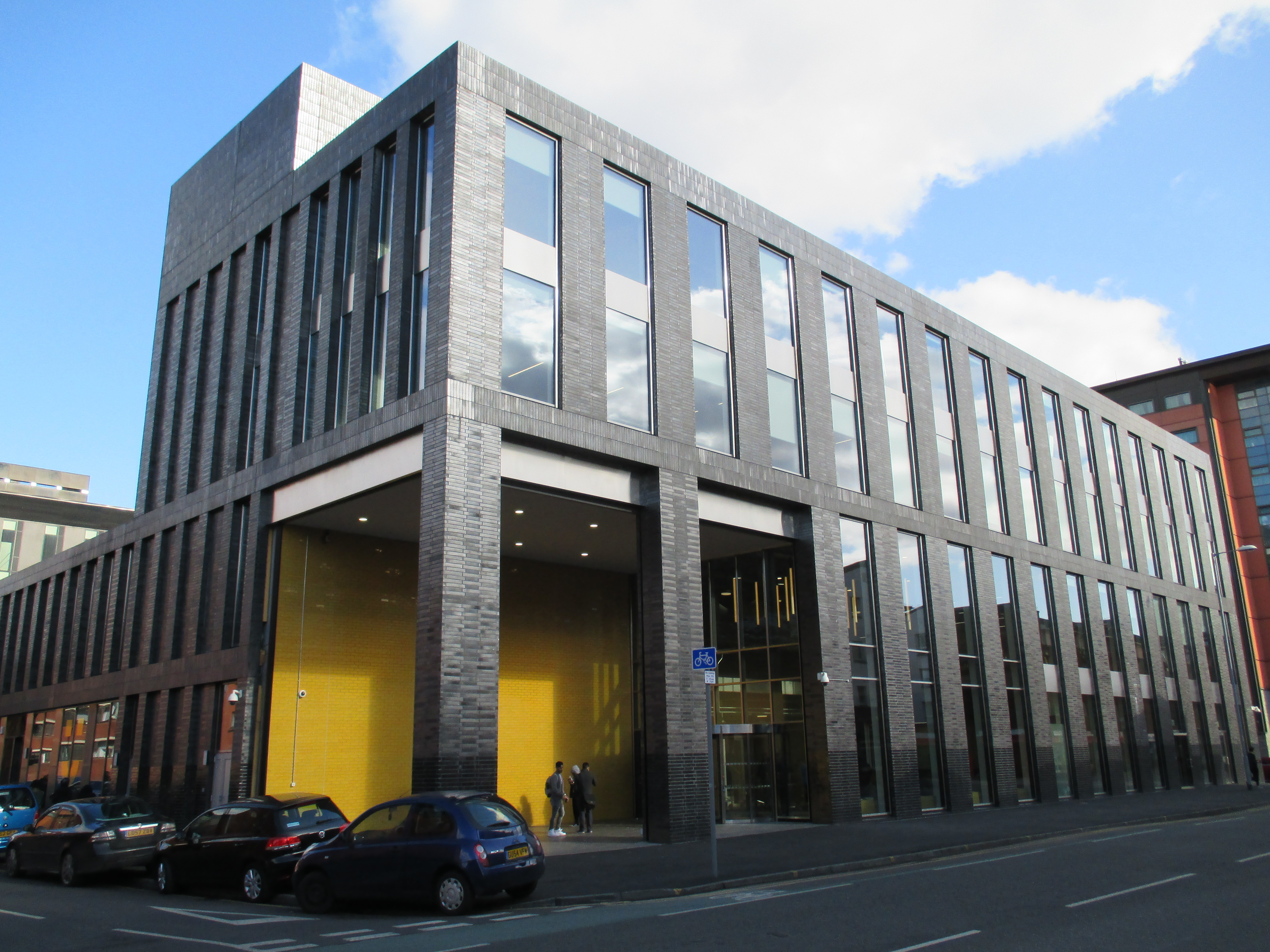 Manchester Metropolitan University Students' Union building on the corner of Higher Cambridge Street and Boundary Street West, Manchester, England.